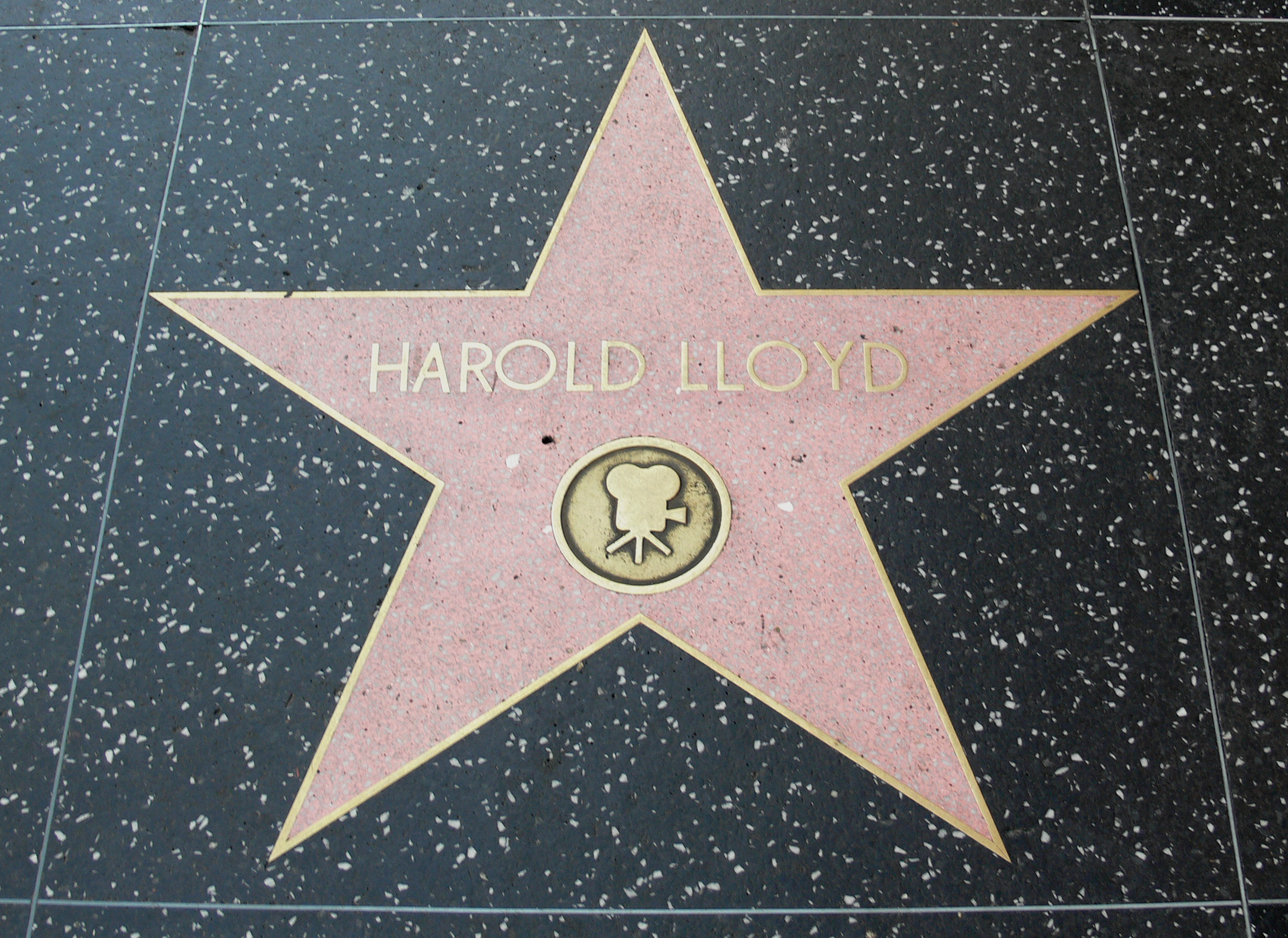 Star for Harold Lloyd on the Hollywood Walk of Fame, Hollywood Boulevard, Los Angeles